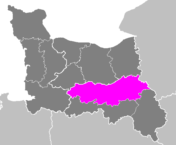 Maps of arrondissements and cantons of France: Arrondissement d Argentan.PNG